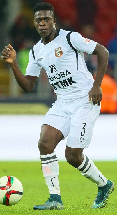 Chisamba Lungu